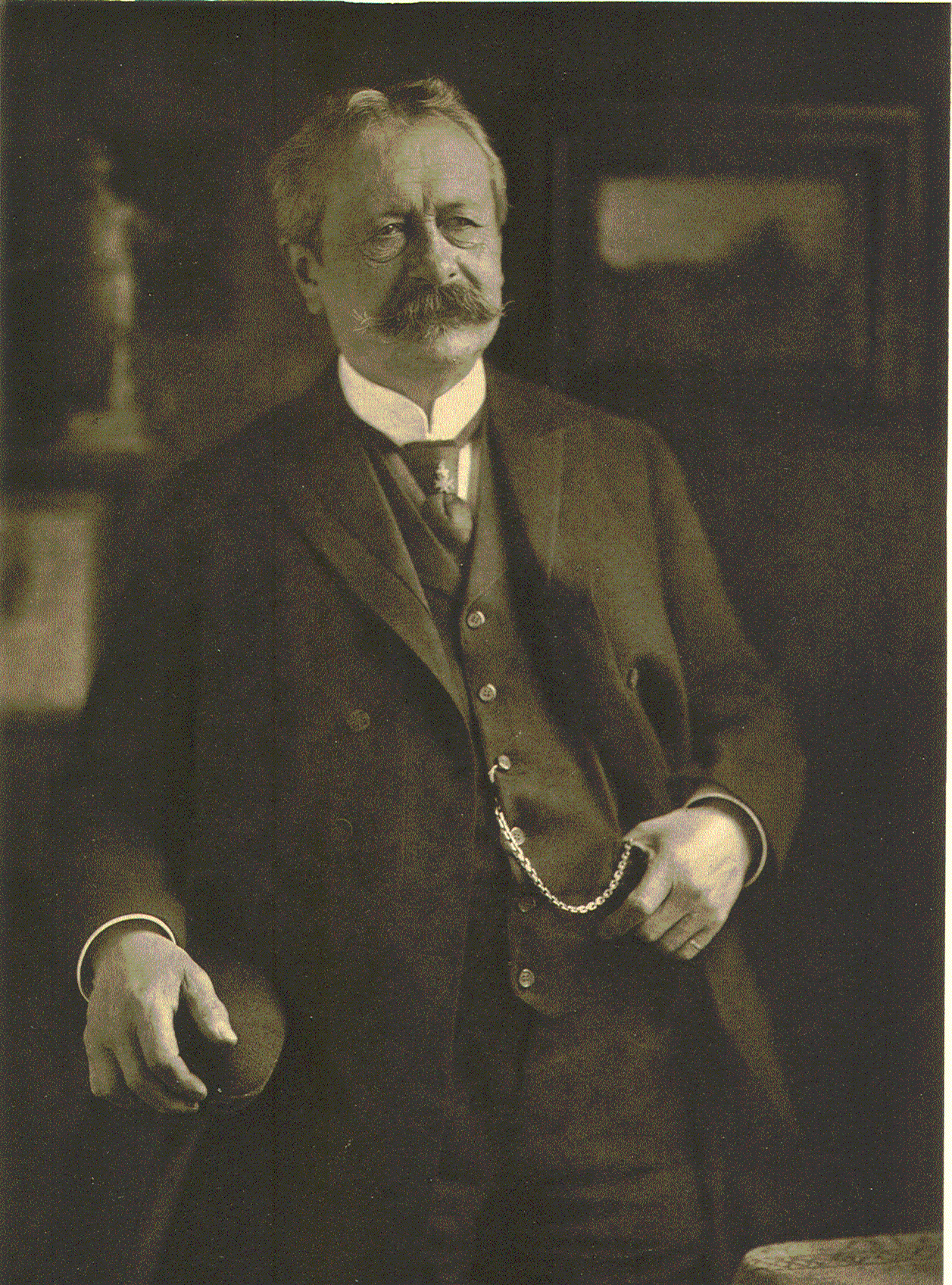 Heinrich Leitner (1842–1913), Austrian-German Painter.